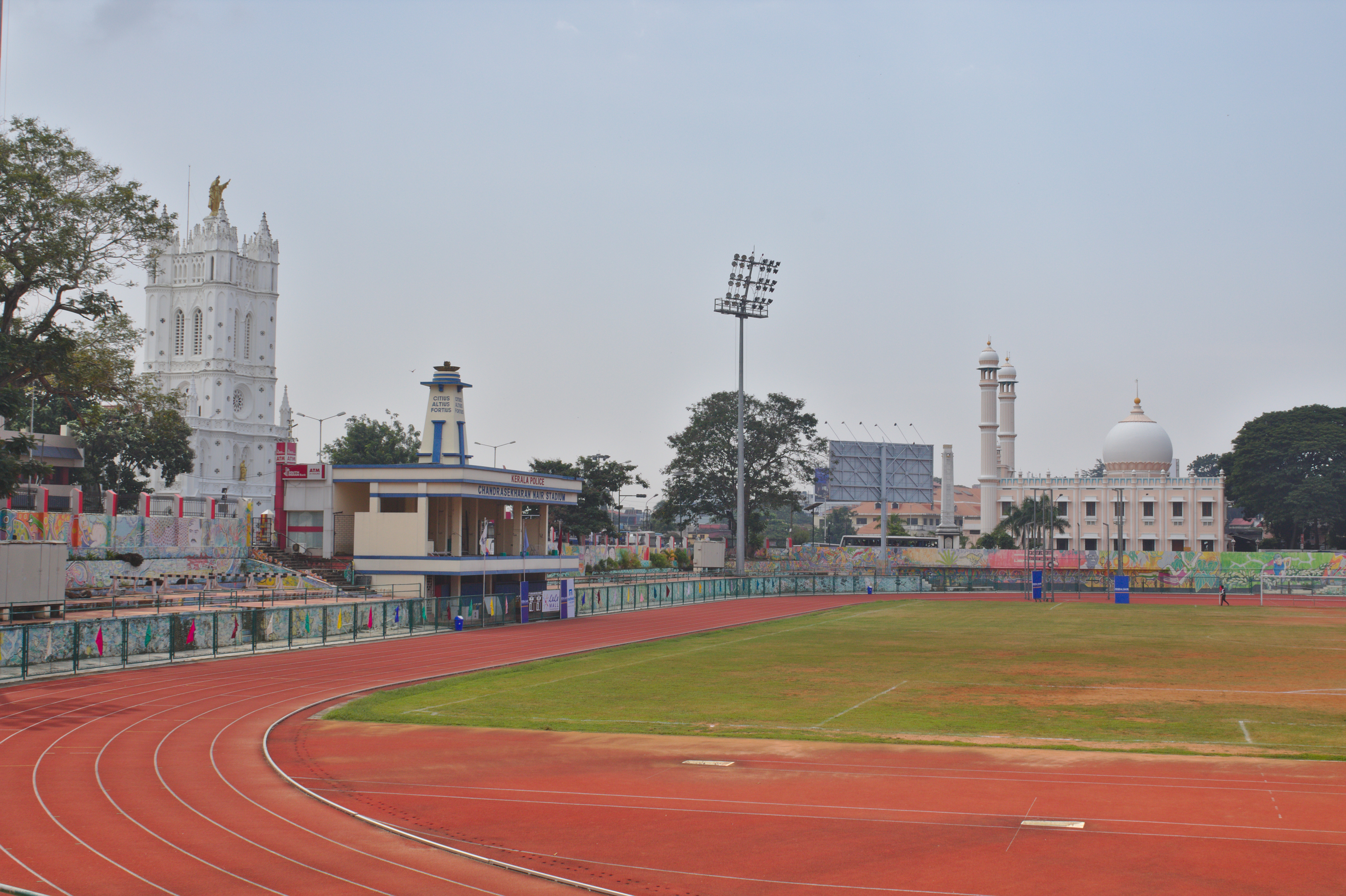 Palayam Juma Mosque and St.Josephs Cathedras as seen from Chandrashekharan Nair Stadium, Thiruvananthapuram, Kerala, India